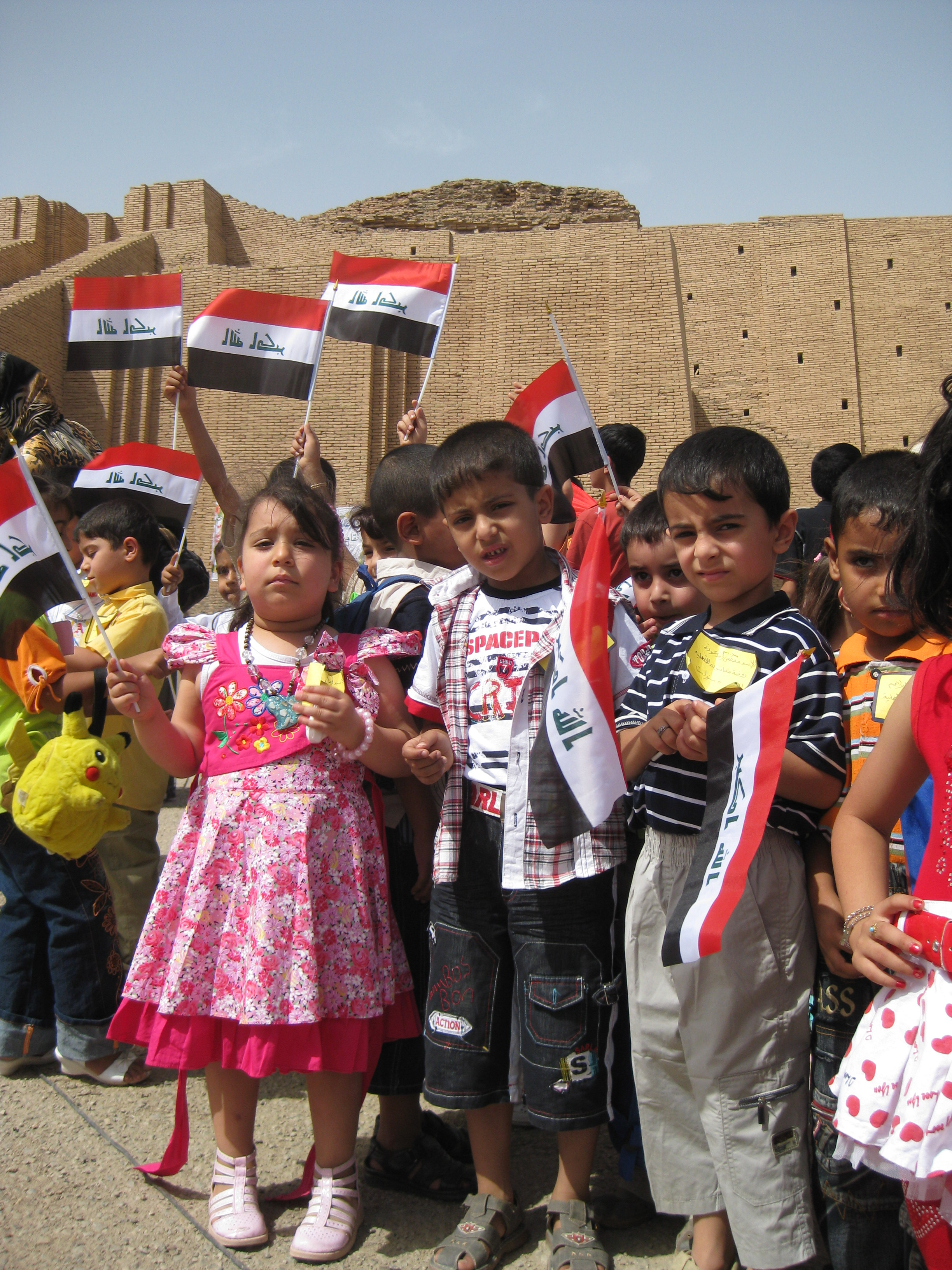 Kindergarten students from Mumsuna school in Nasiriyah, Iraq, attend a ceremony marking the transfer of the Ziggurat of Ur from U.S. to Iraqi control. The Ziggurat had been closed to the public since 2003. The Ziggurat was constructed in 2100 B.C. by Sumerian King Ur-Nammu. The ceremony was attended by Iraqi government leaders and military representatives from Multi-National Division - South. Photo by Maj. Myles Caggins